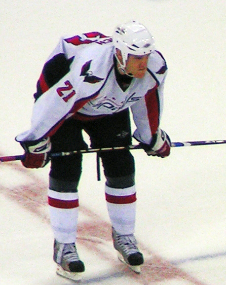 Brooks Laich (WSH) waiting for faceoff against NJ Devils